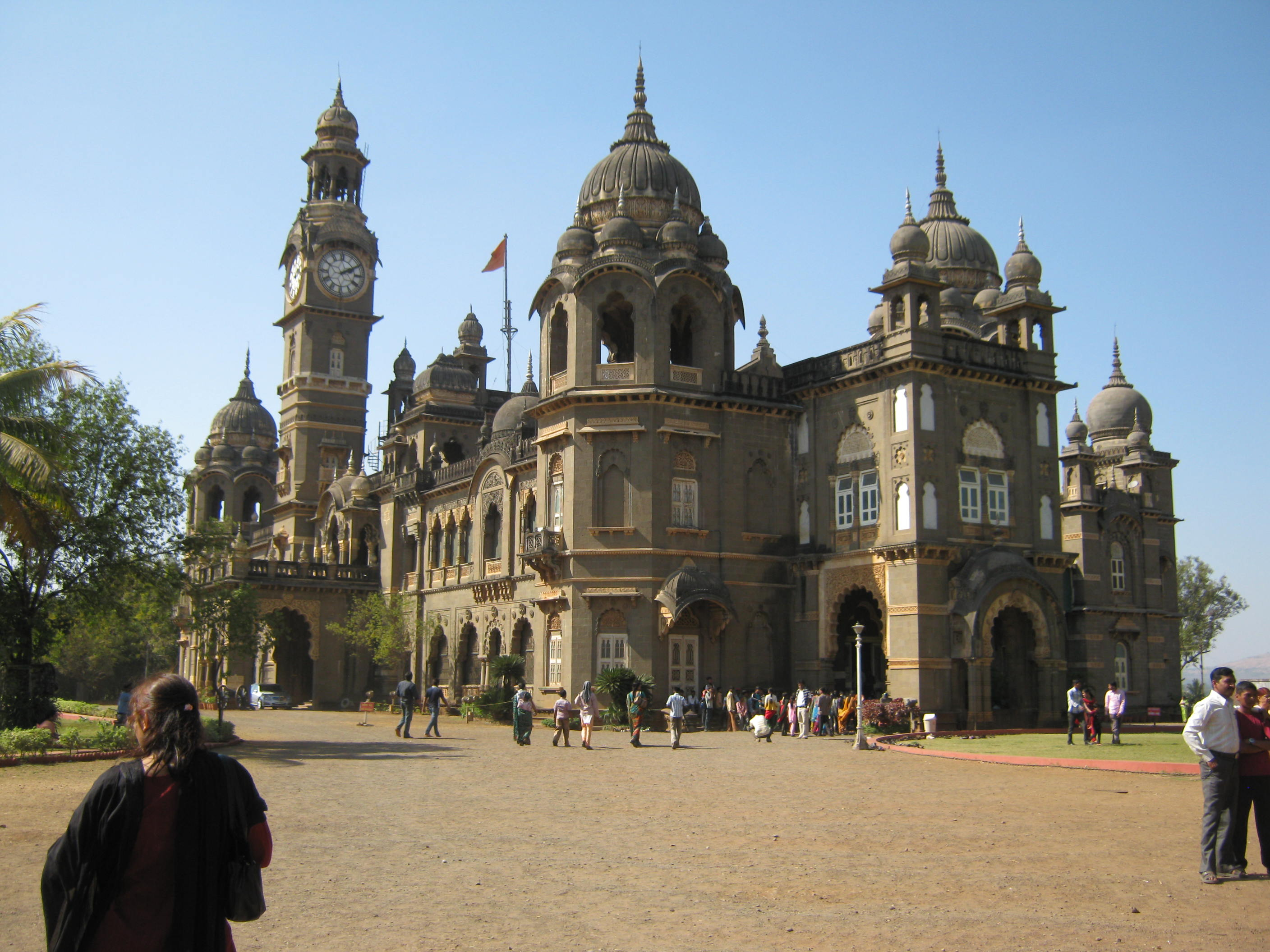 An example of the Indo-saracenic style building from the British Raj era